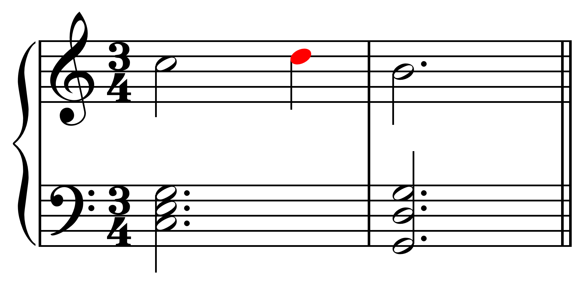 Escape tone, after File:Escape tone.gif.